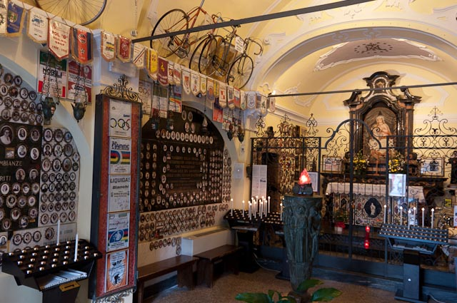 Inner room of Santuario della Madonna del Ghisallo